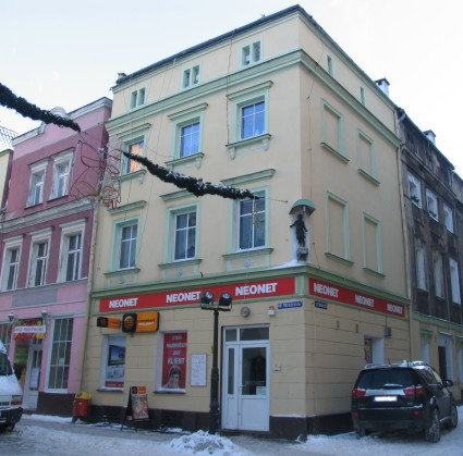 Johann Heinrich Robert Goeppert`s home in Szprotawa, Poland, Lower Silesia